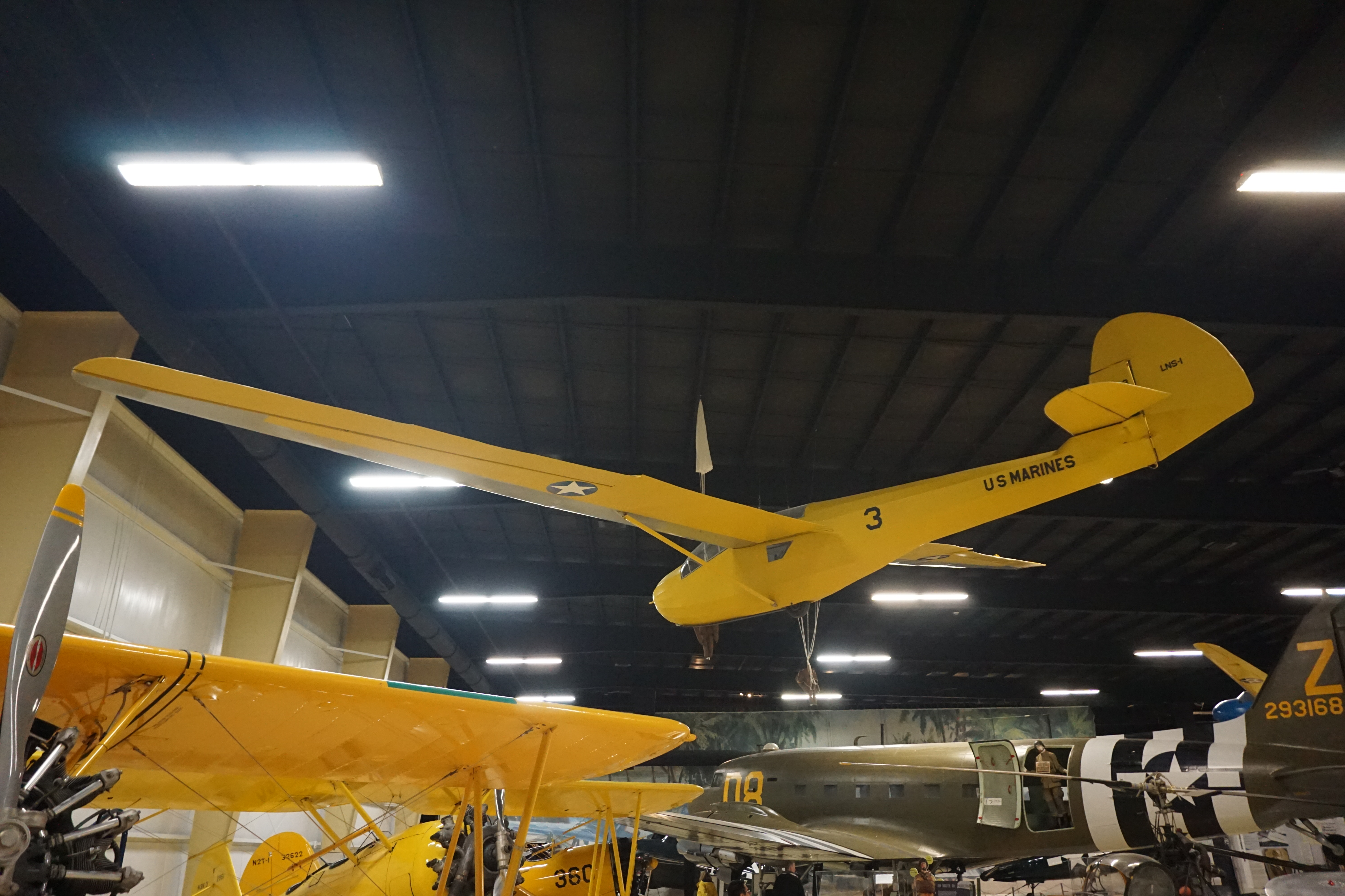 A Schweizer LNS-1 on display at the Air Zoo at Kalamazoo/Battle Creek International Airport in Portage, Michigan (United States).